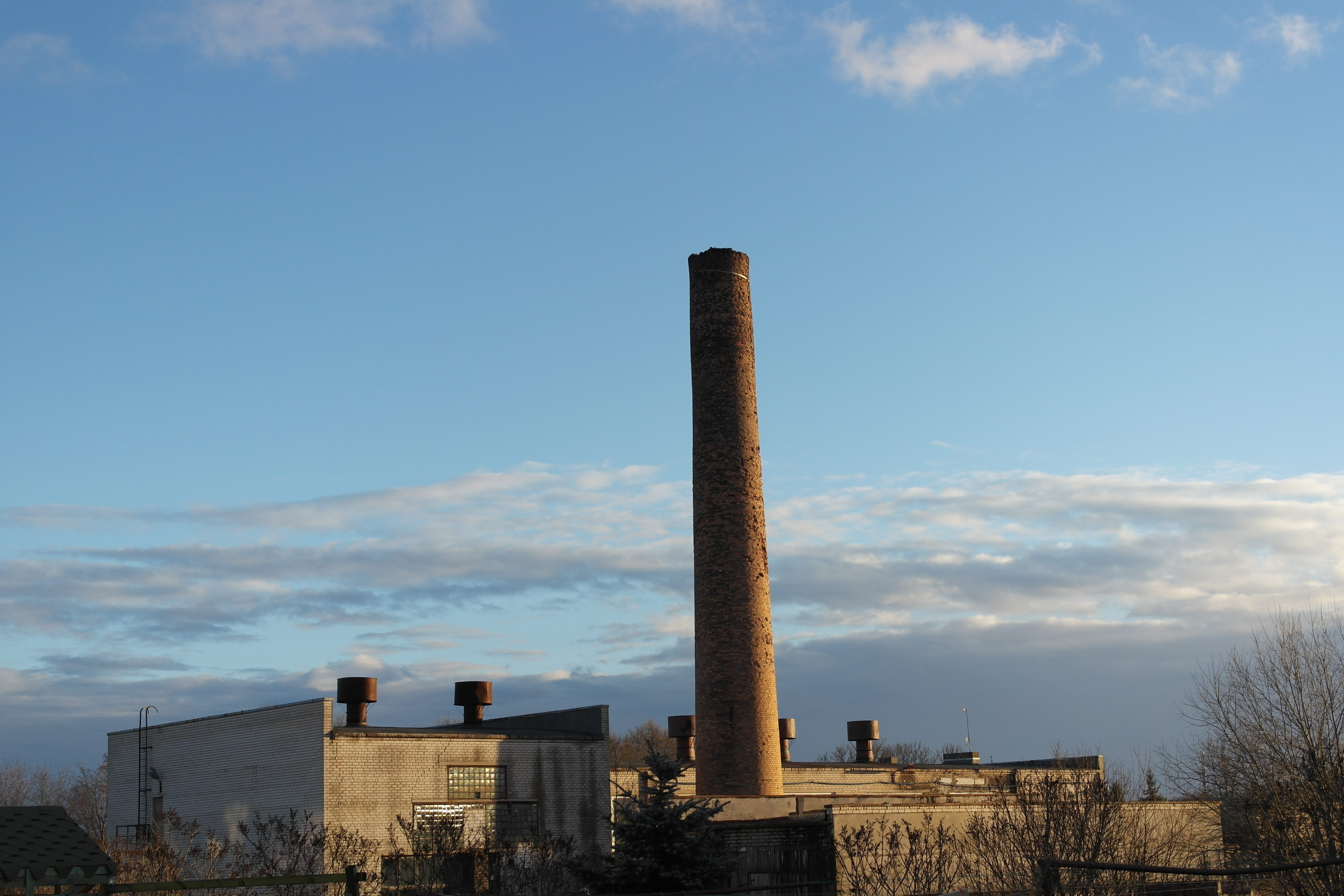 Raven factory